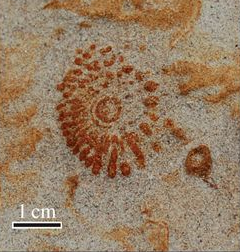 The trace fossil Psilonichnus from the Bahía Inglesa Formation of Chile